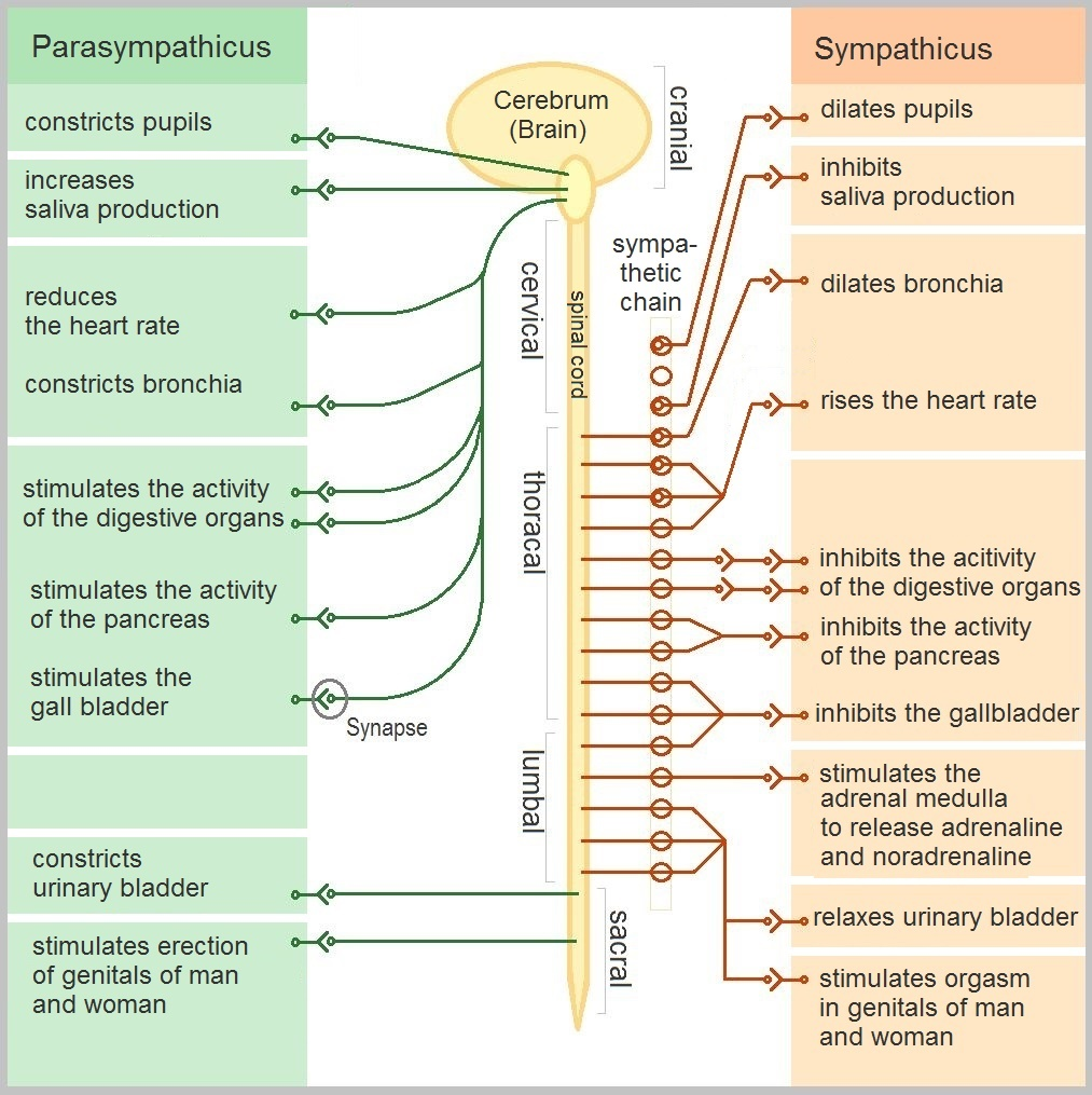 Autonomic nervous system